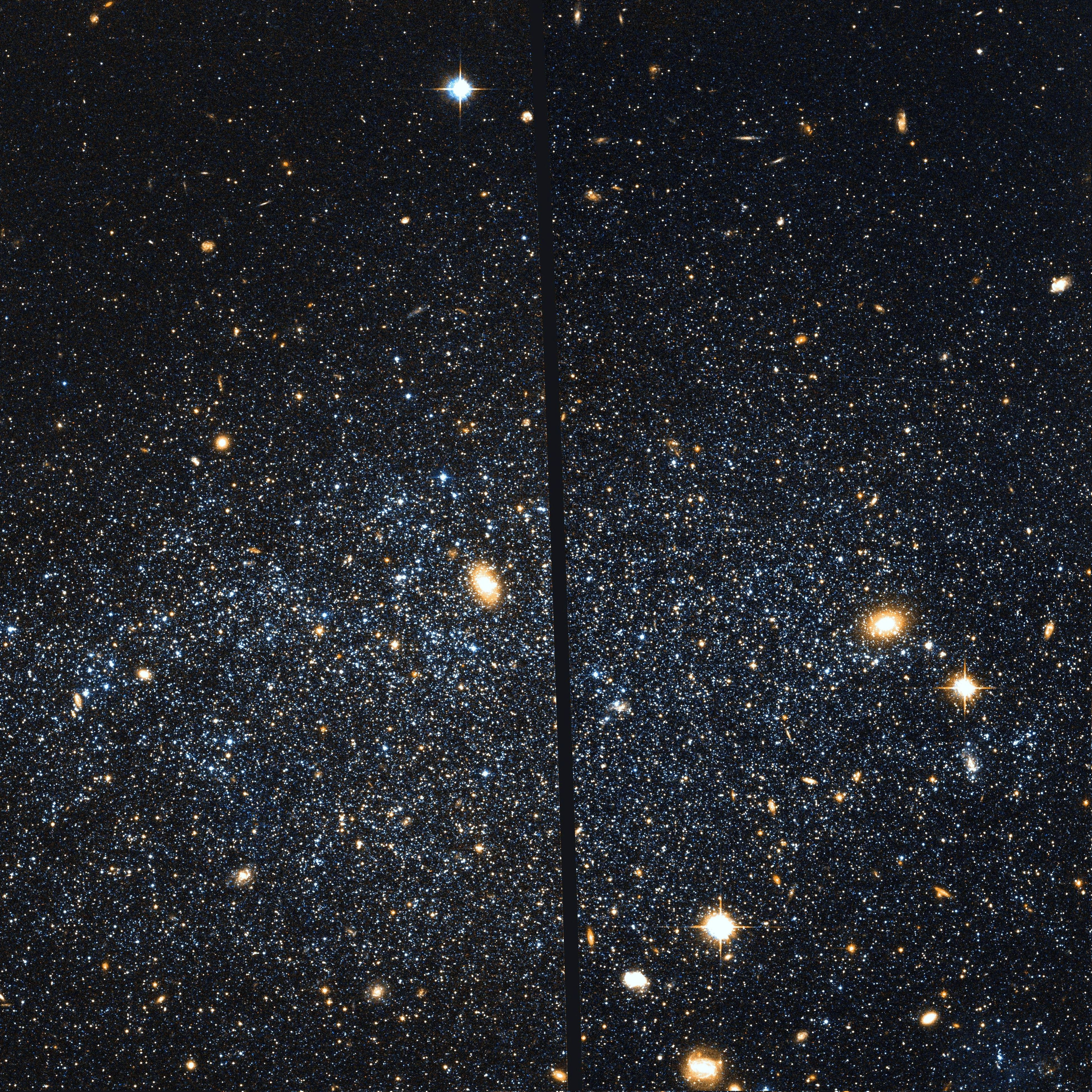 Leo A dwarf irregular galaxy by Hubble space telescope